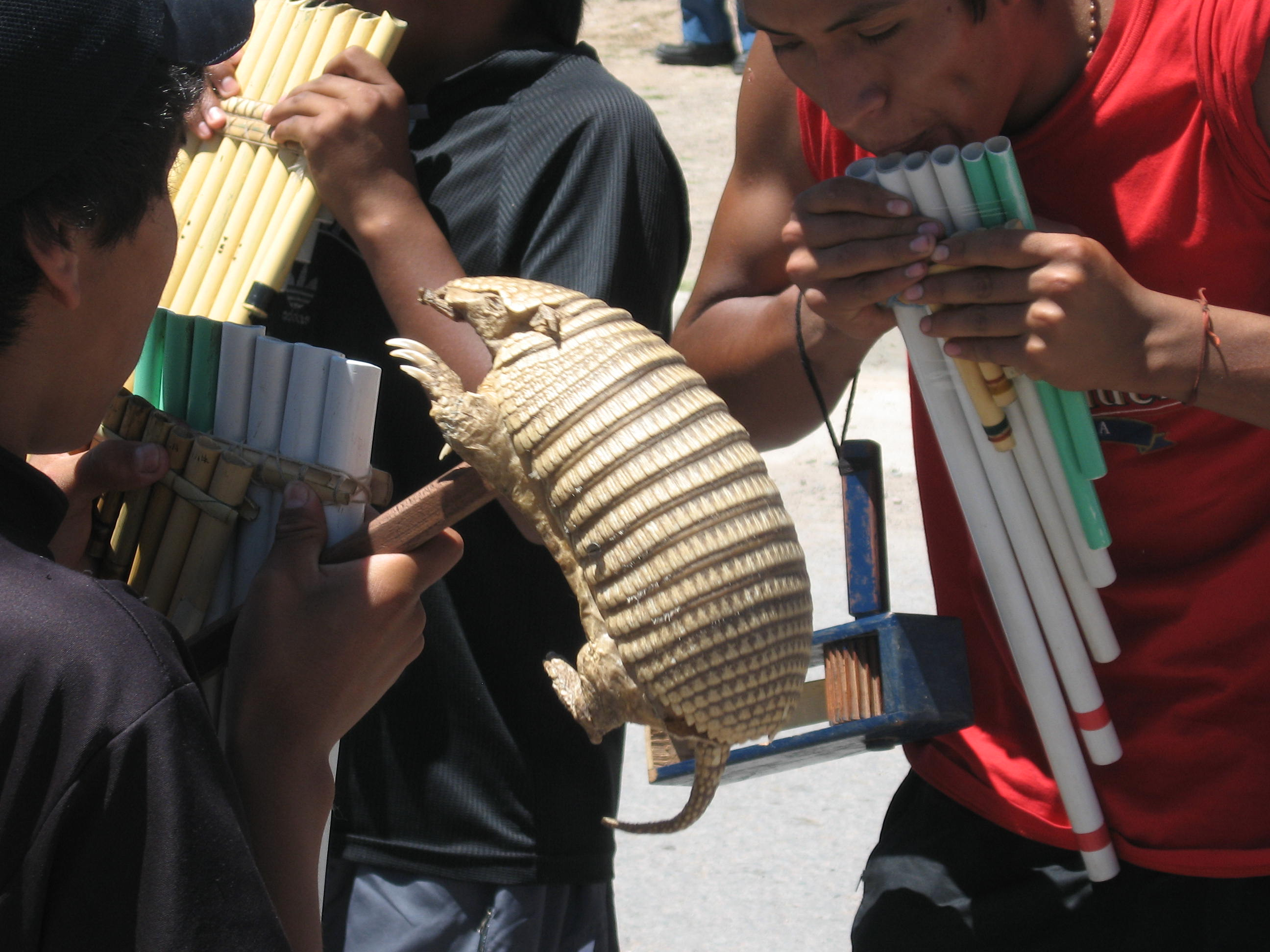 Armadillo used as a shaker instrument. Virgin de la Candelaria, Humahuaca, in the Argentina Andes.